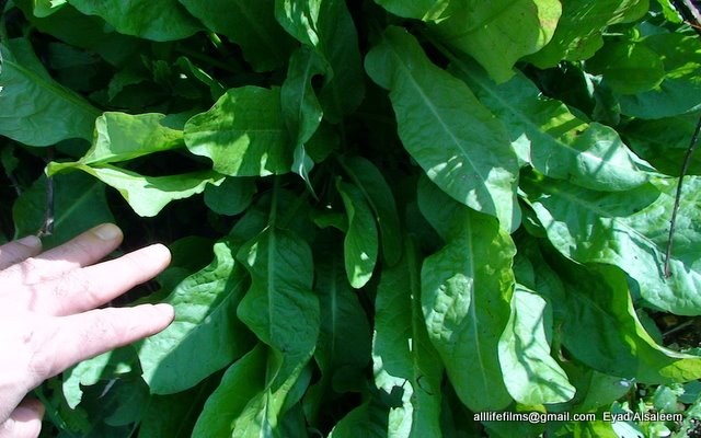 نباتات برّية سورية تؤكل